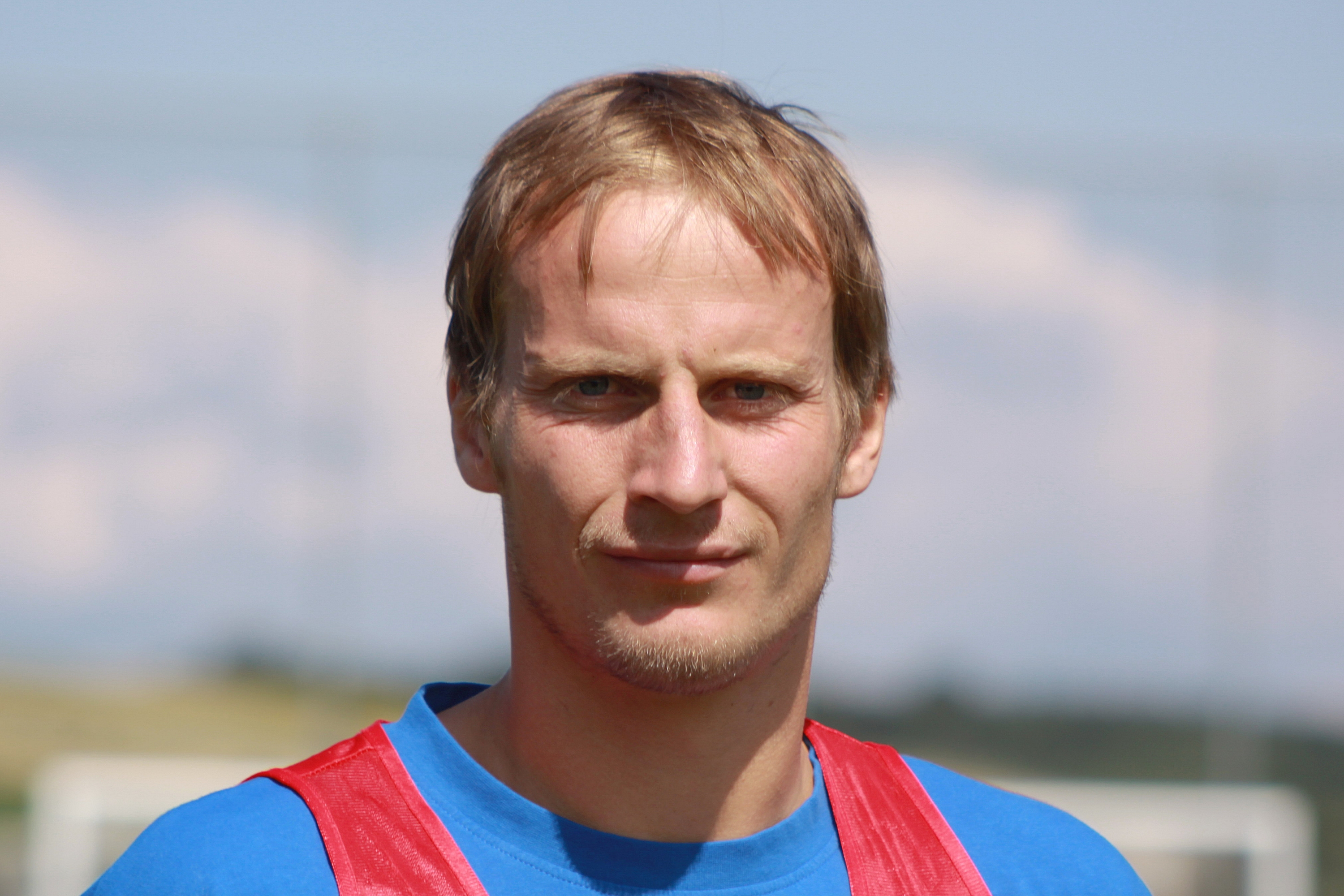 Pavel Košťál - SC Magna Wiener Neustadt cs: Pavel Košťál - SC Magna Wiener Neustadt